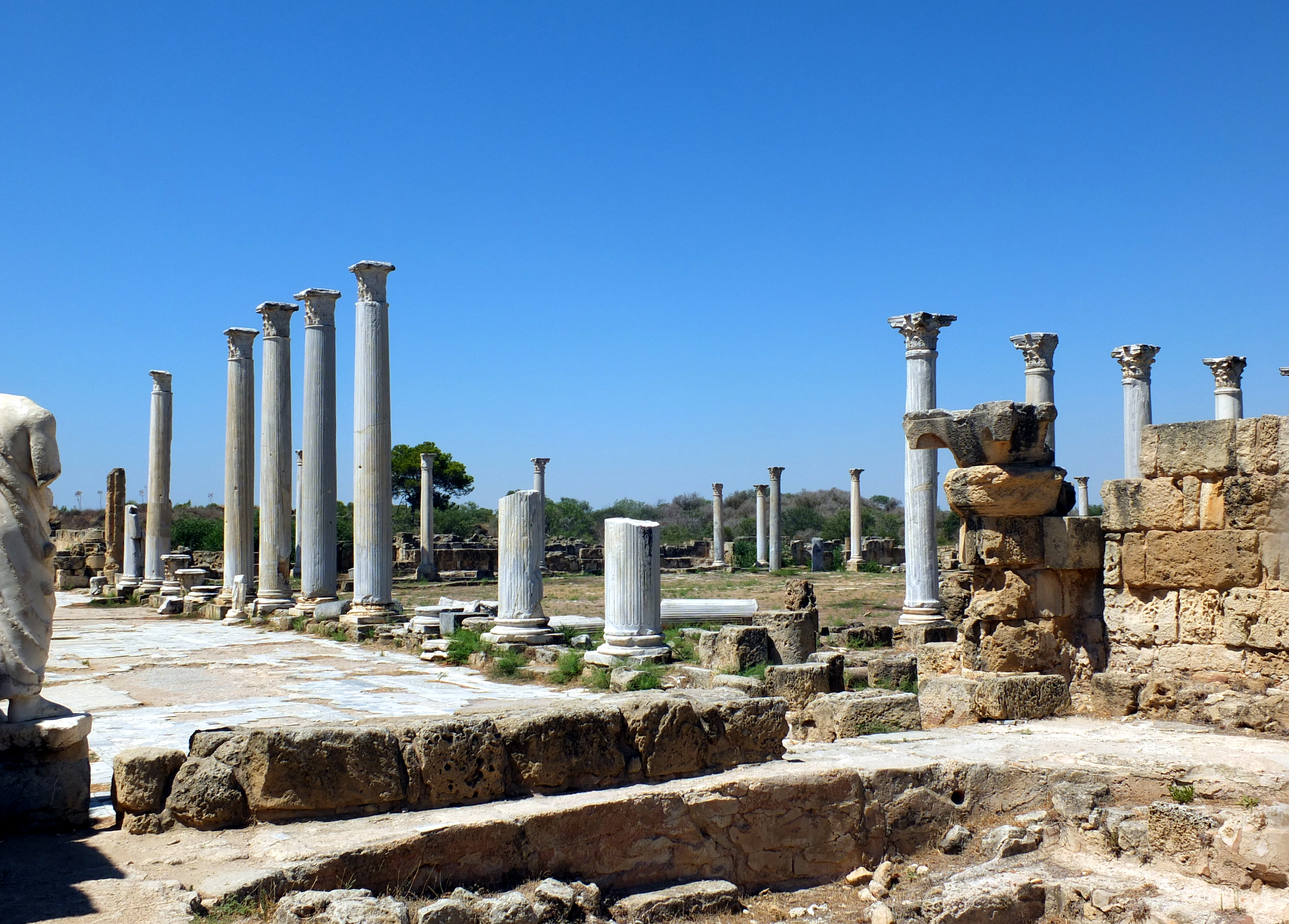 The ruins of Salamis, an ancient Greek city-state on the east coast of Cyprus, at the mouth of the river Pedieos, 6 km north of modern Famagusta.